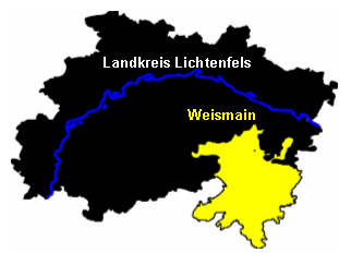 Locator maps of municipalities in Bavaria - District Lichtenfels